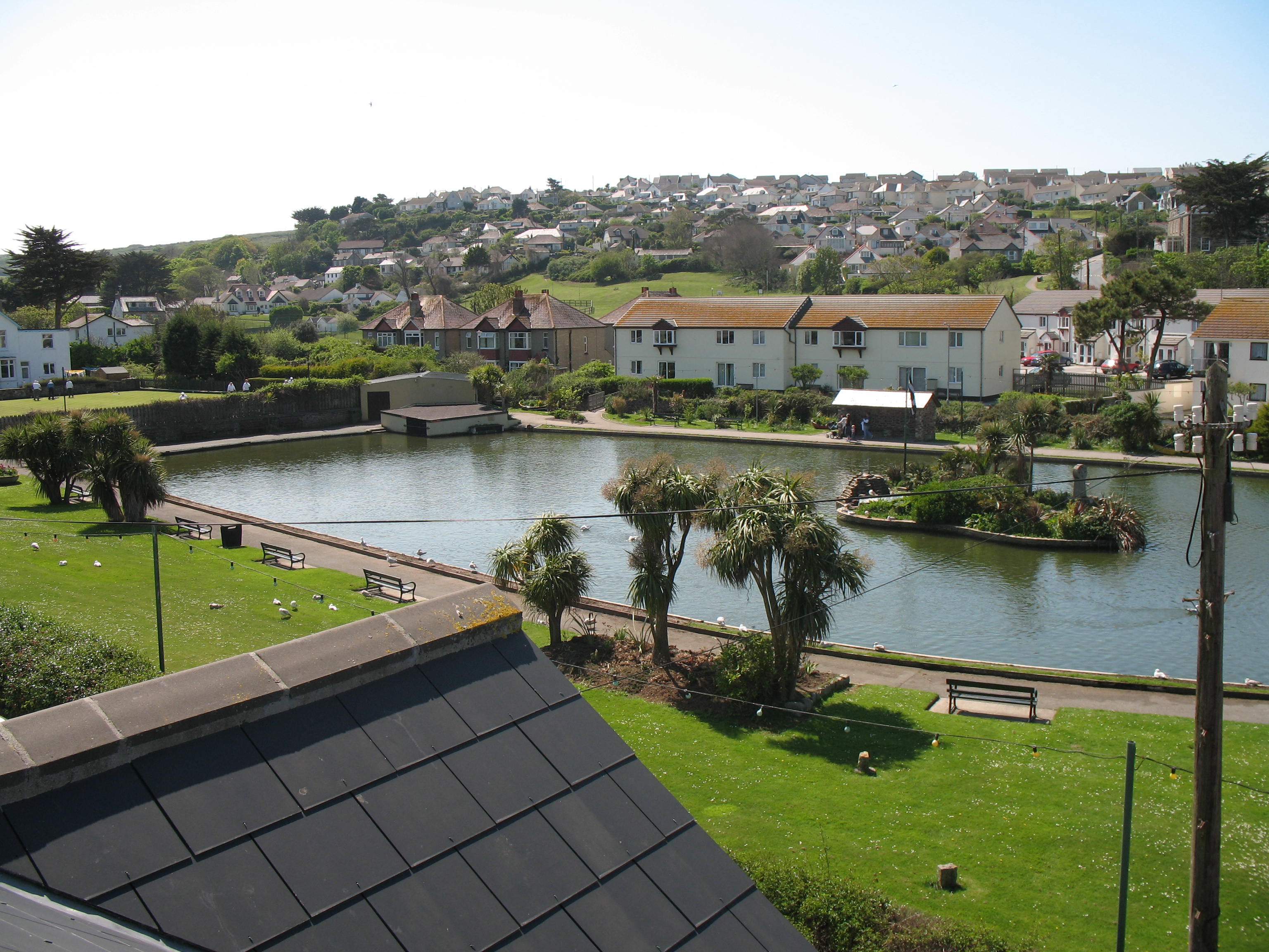 Perranporth Boating Lake Image source: Jonathon Staples